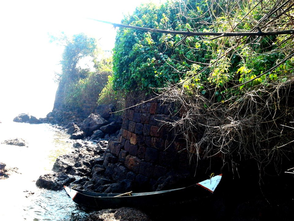 fort wall at the edge of the sea